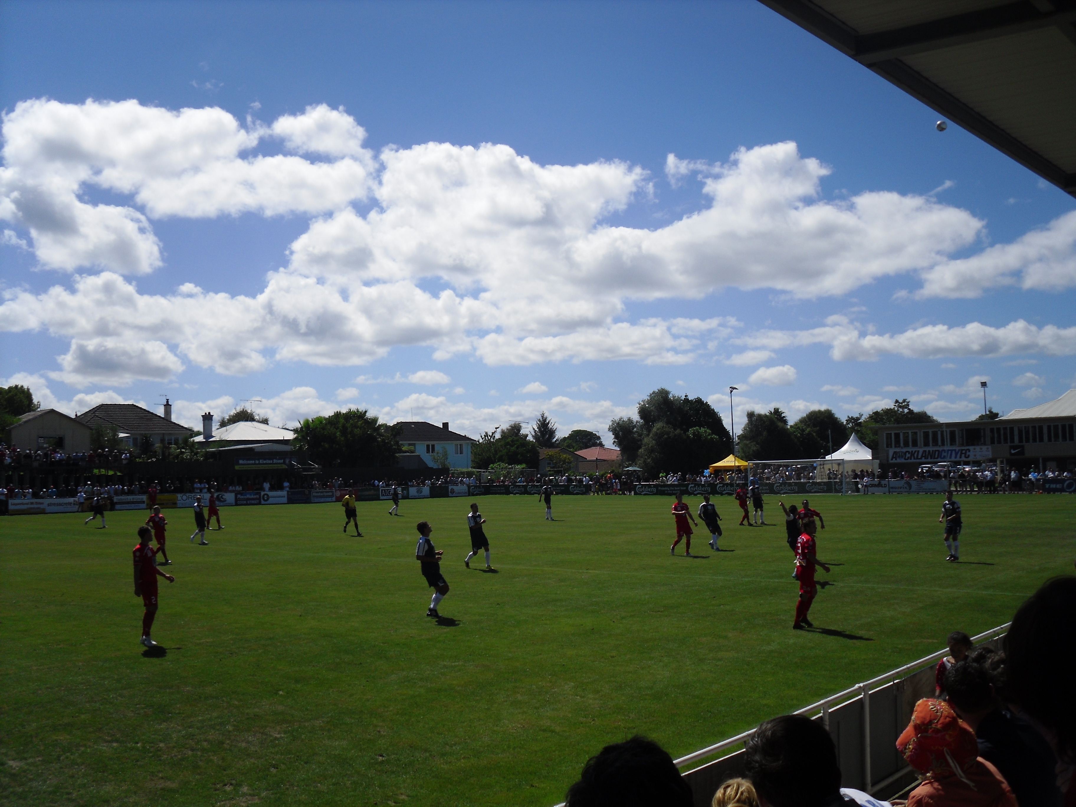 Kiwitea Street (Freyberg Field) on 27/02/11